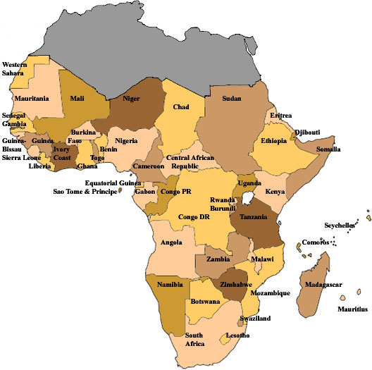 A map of Sub-saharan Africa